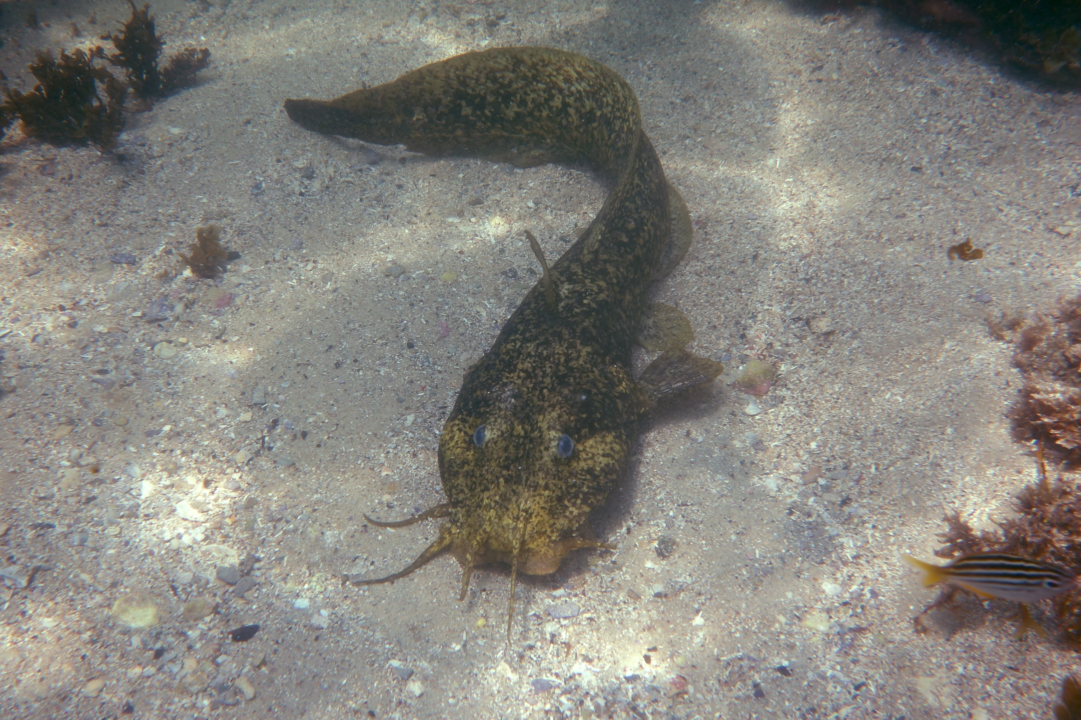 at Shelly Beach, Manly, Sydney